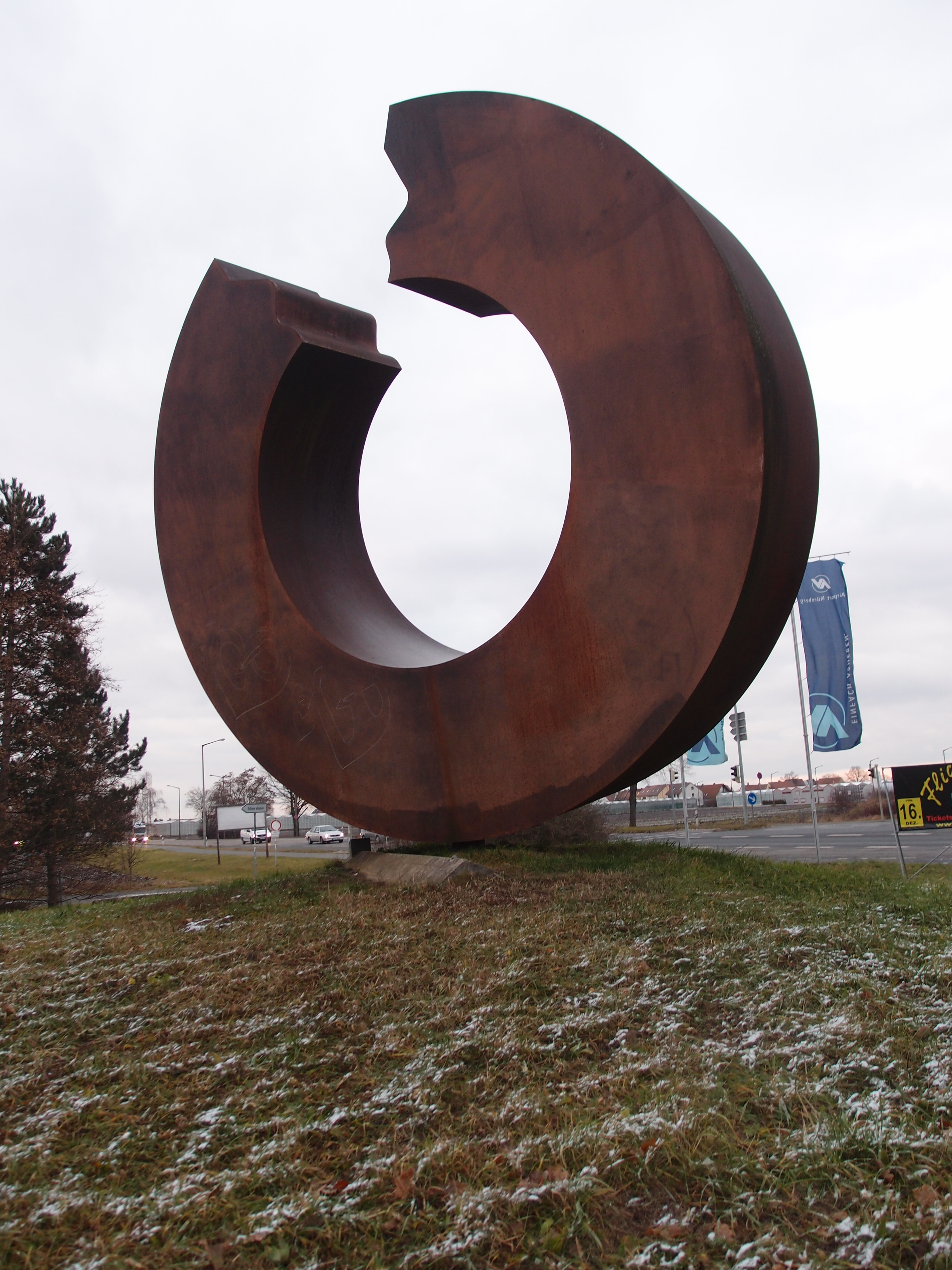 Unexpected I. Sculpture in Nuremberg, by Buky Schwartz, 1971